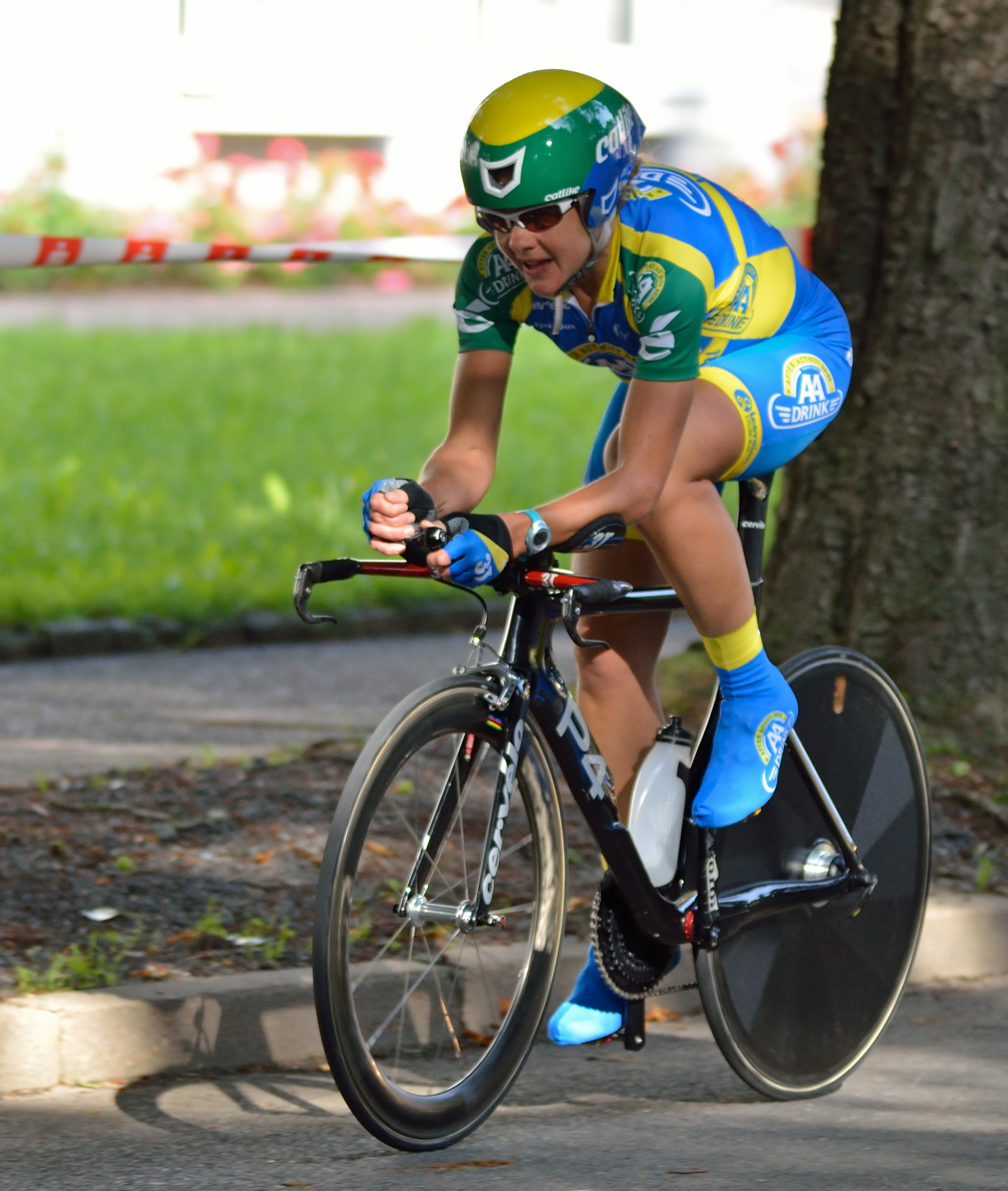 Sharon Laws from the AA Drink-leontien.nl team during the Women's Tour of Thuringia 2012 in Zwickau, Germany.